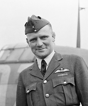 Wing Commander F V Beamish, the Station Commander of RAF North Weald in Essex.